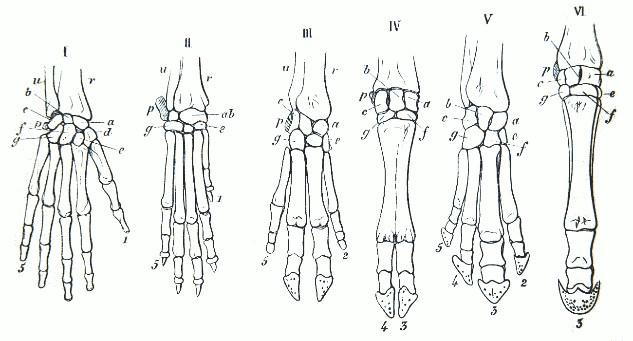 Gegenbaur: Homology of the hand to forelimbs (1870). I Man. II Dog. III Pig. IV Cow. V Tapir. VI Horse. r Radius. u Ulna. a Scaphoid. b Lunar. c Cuneiform. d Trapezium. e Trapezoid. f Magnum. g Uncinate. p Pisiform